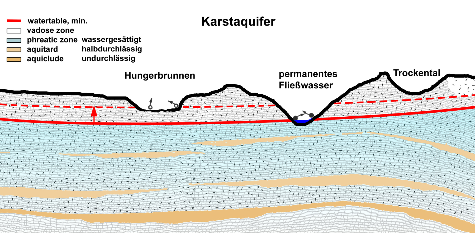 The water table (solid red line) of the phreatic zone of a karst aquifer may rise considerably in (immediate or somewhat delayed) response to extensive precipitation or snow melt. Usually dry places in the outcrop area of the vadose zone may become active springs during such periods of elevated ground water table (dashed red line).